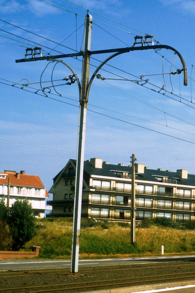 Keywords: SNCV, vicinal railways, rail, metre gauge, tram, train, overhead, catenary suspension, Oostduinkerke, Belgium